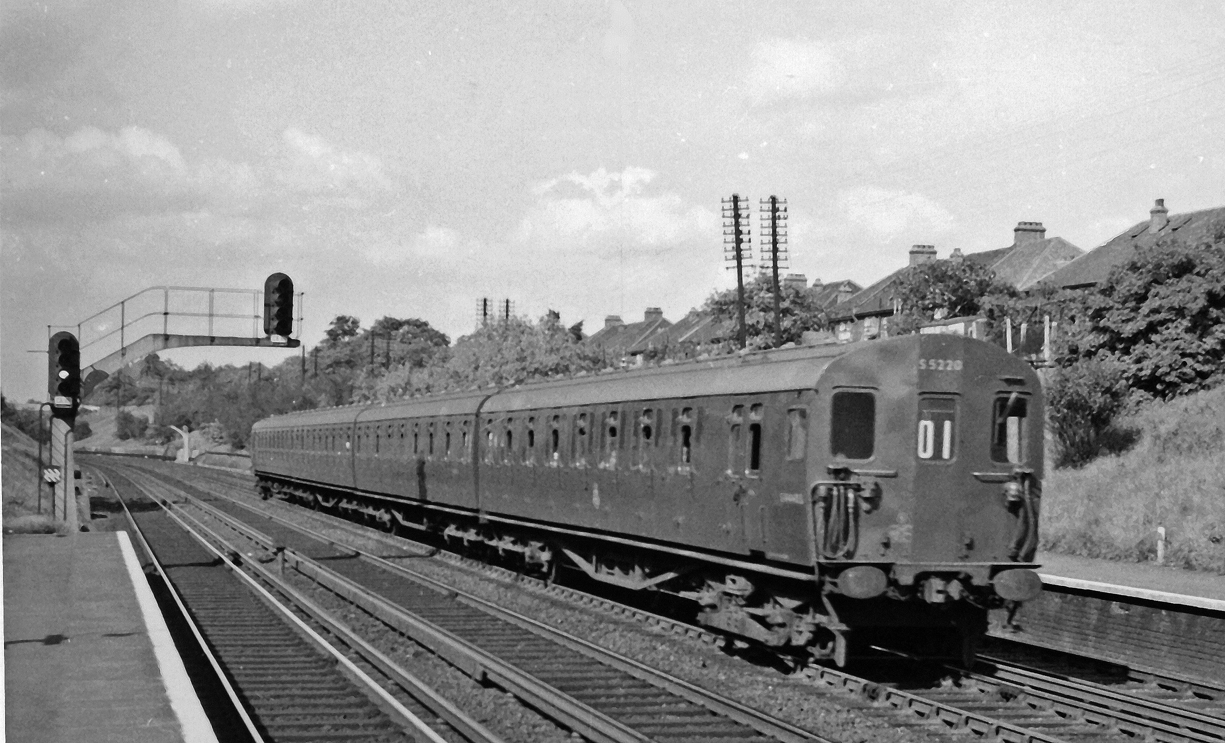 Down suburban electric train passing Honor Oak Park station. View northward, towards New Cross Gate, London Bridge and Charing Cross; ex-London Brighton & South Coast Railway, London Bridge - Croydon main line. The train is a Charing Cross - Tattenham Corner/Caterham service formed of two 4-EPTB sets dividing at Purley.